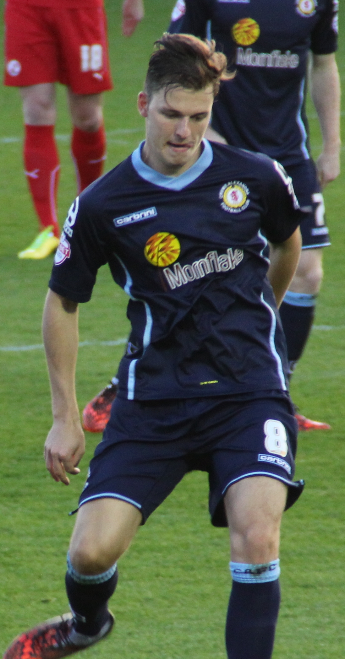 Chris Atkinson playing for Crewe Alexandra against Crawley Town at Broadfield Stadium, Crawley on 1 November 2014